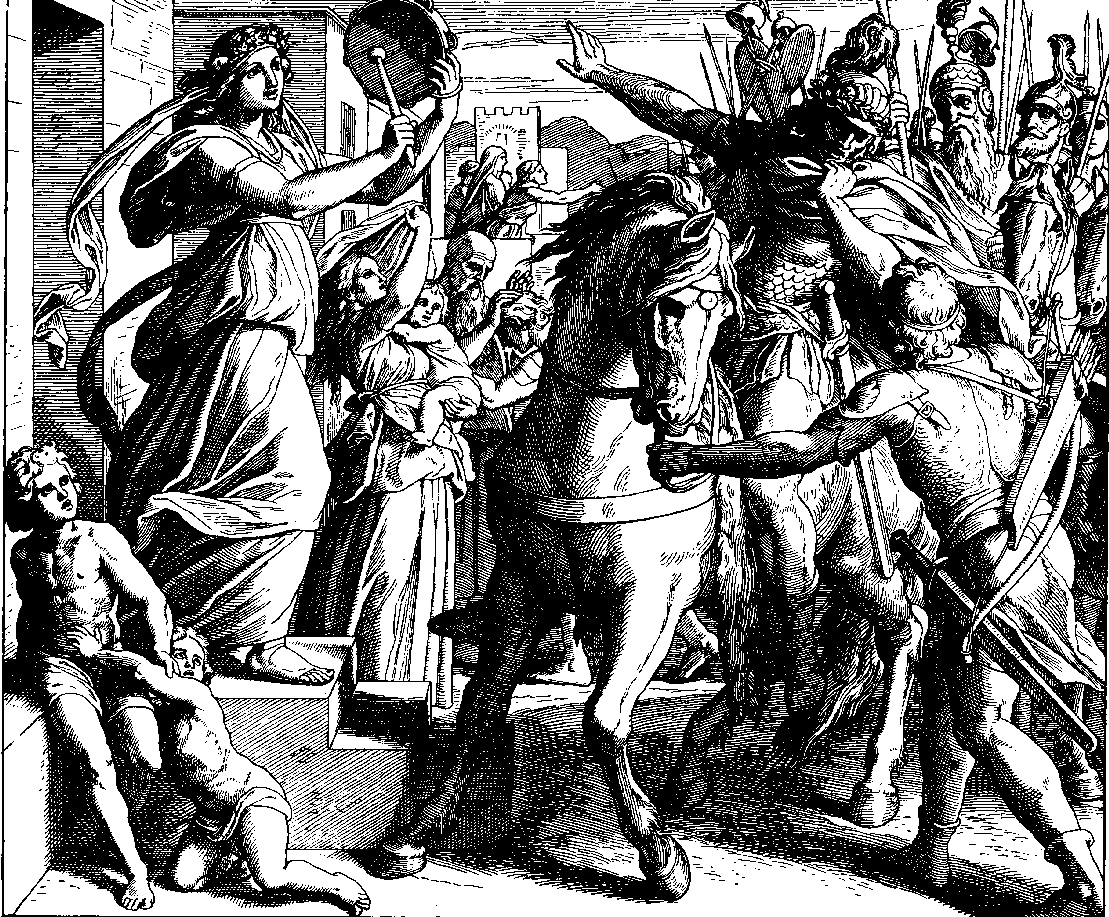 Woodcut for "Die Bibel in Bildern", 1860.